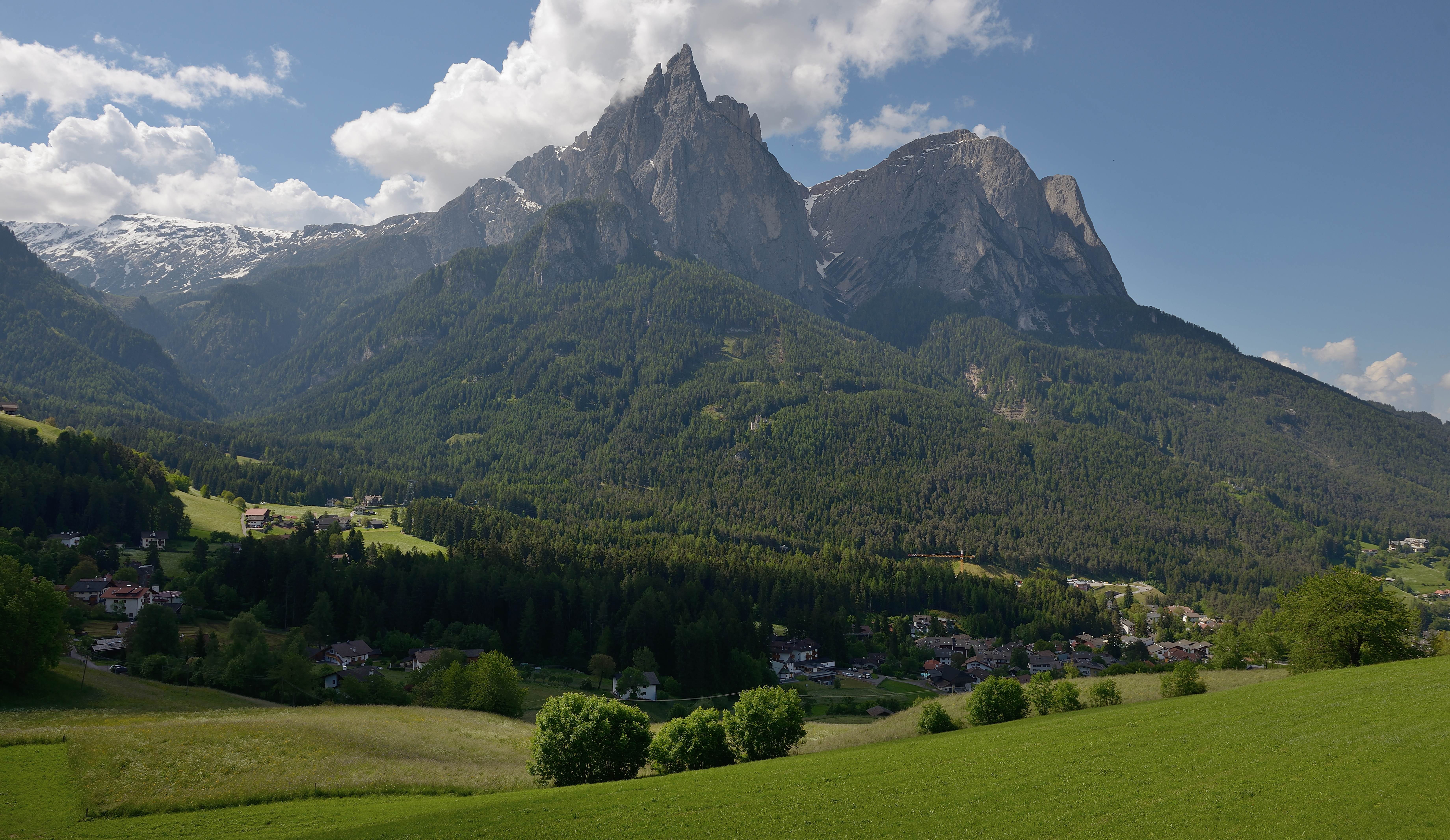 Seis the Schlern Mountain and the castel ruins Hauenstein and Salegg